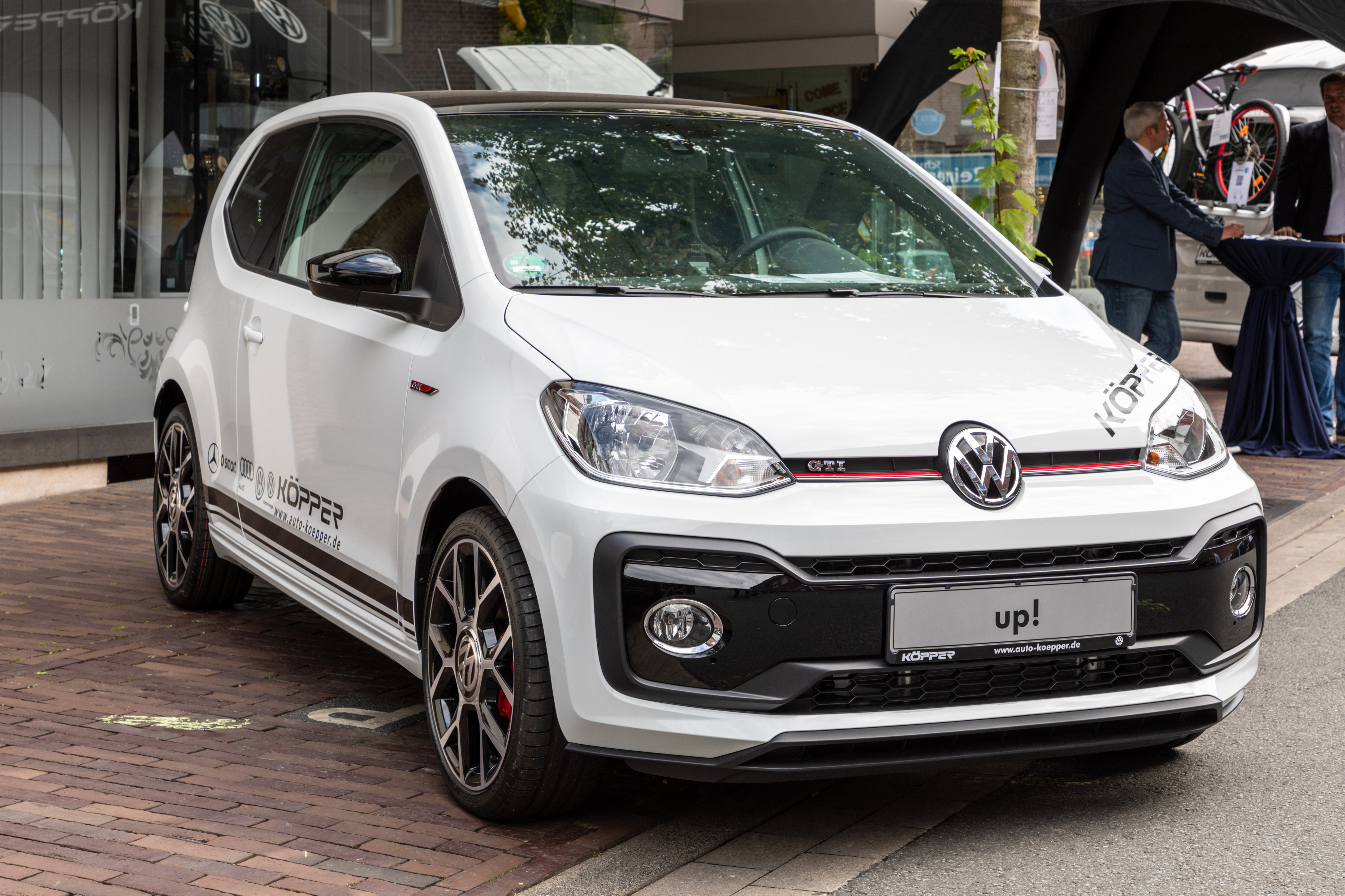 Volkswagen Up! GTI at the car exhibition on the potato market in Dülmen, North Rhine-Westphalia, Germany